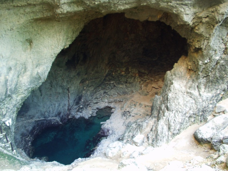 Source of the Sorgue in Southern France, period of low water.